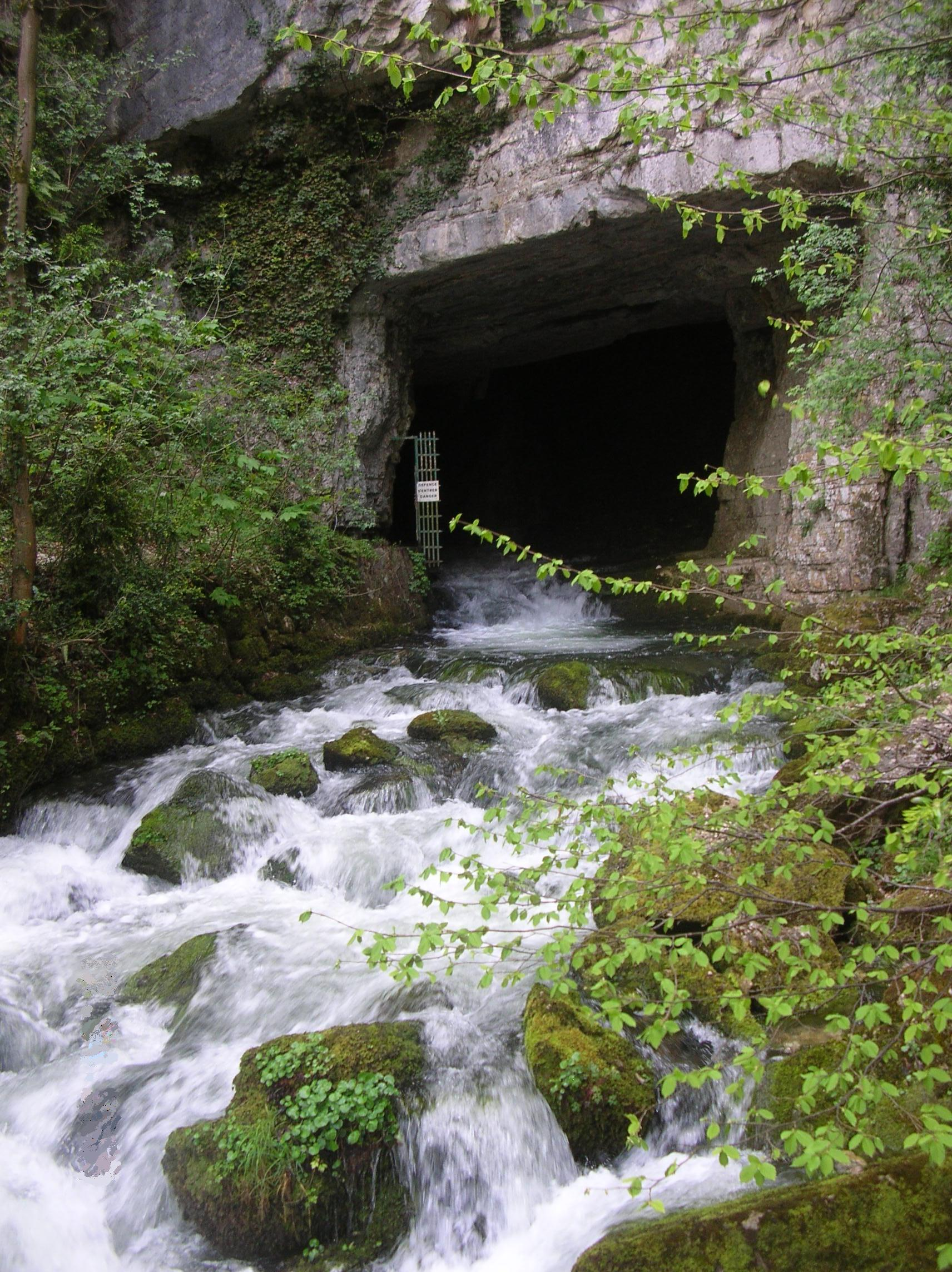 The cave of Sassenage, Isère, a river cave of the small river Furon. It was discovered that there is water from the Gouffre Berger.